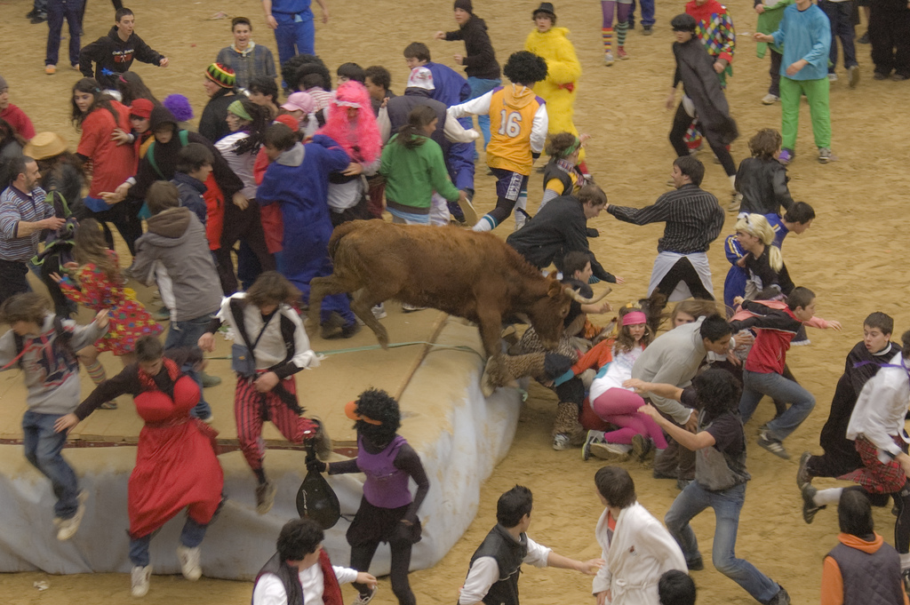 Little bull in carnival of Tolosa.